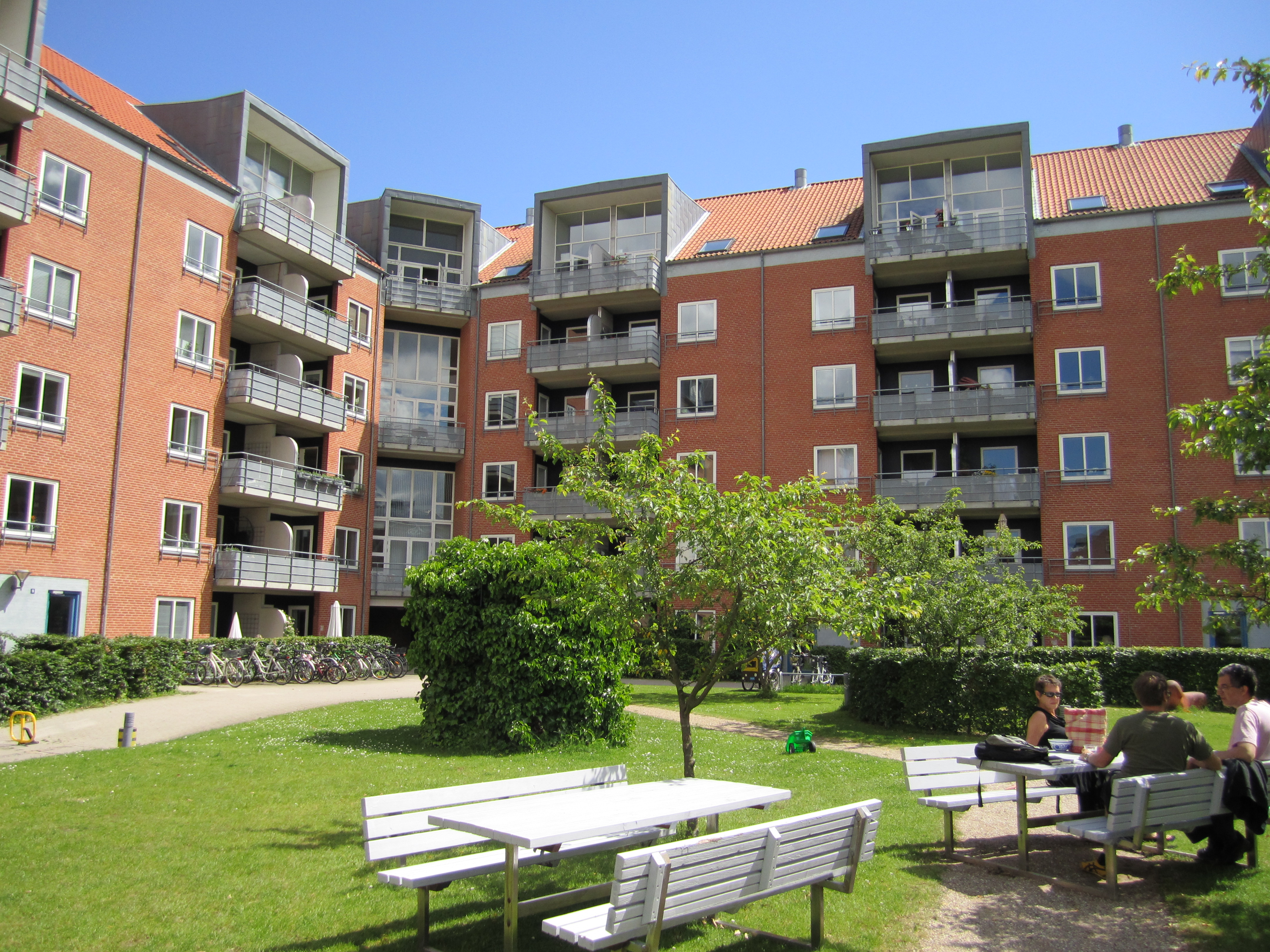 H Applebys Have in the Christianshavn neighbourhood of Copenhagen, Denmark